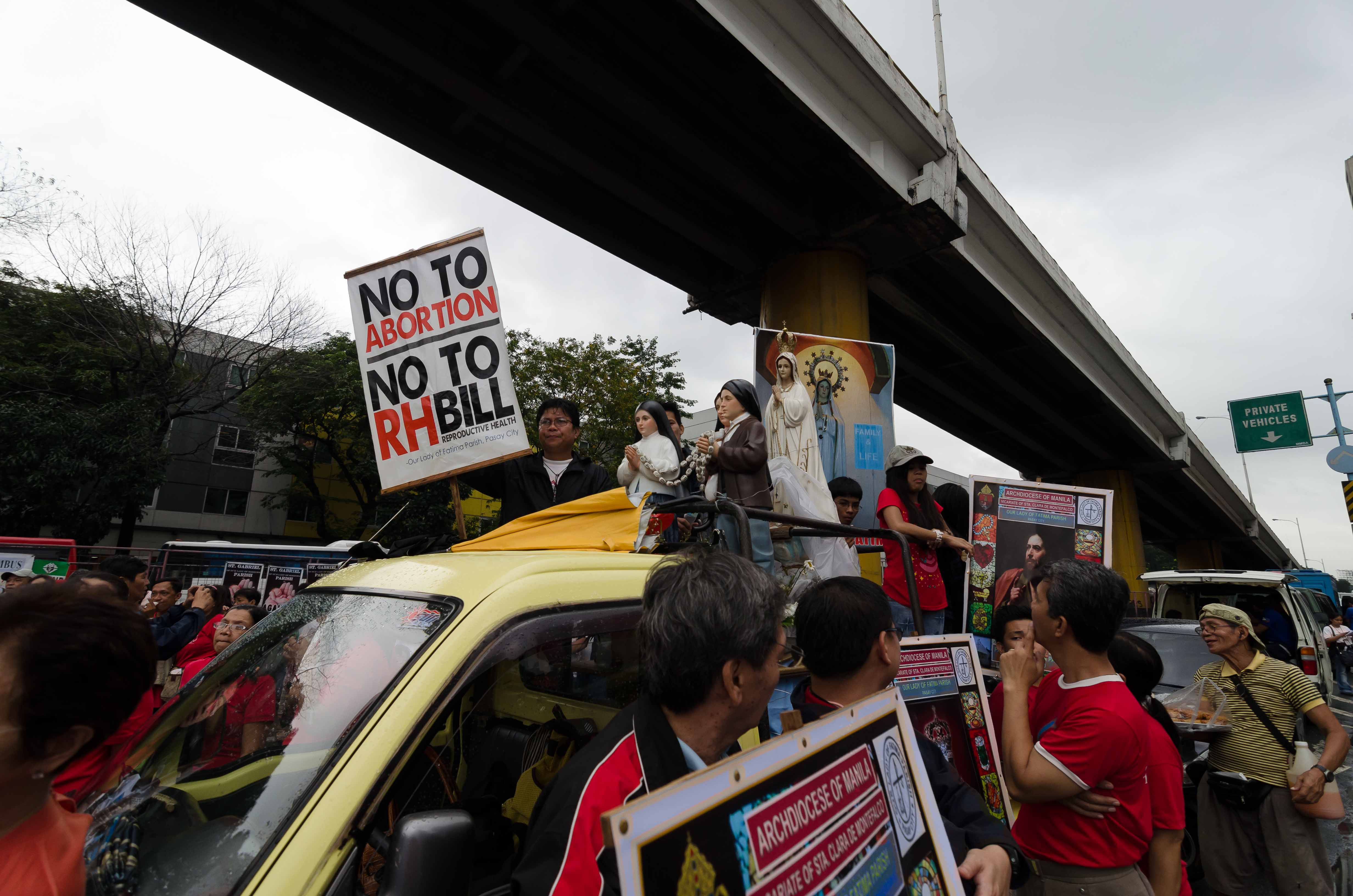 Mass rally / protests organized by the Catholic Church on EDSA in opposition to the then-Reproductive Health (RH) Bill.